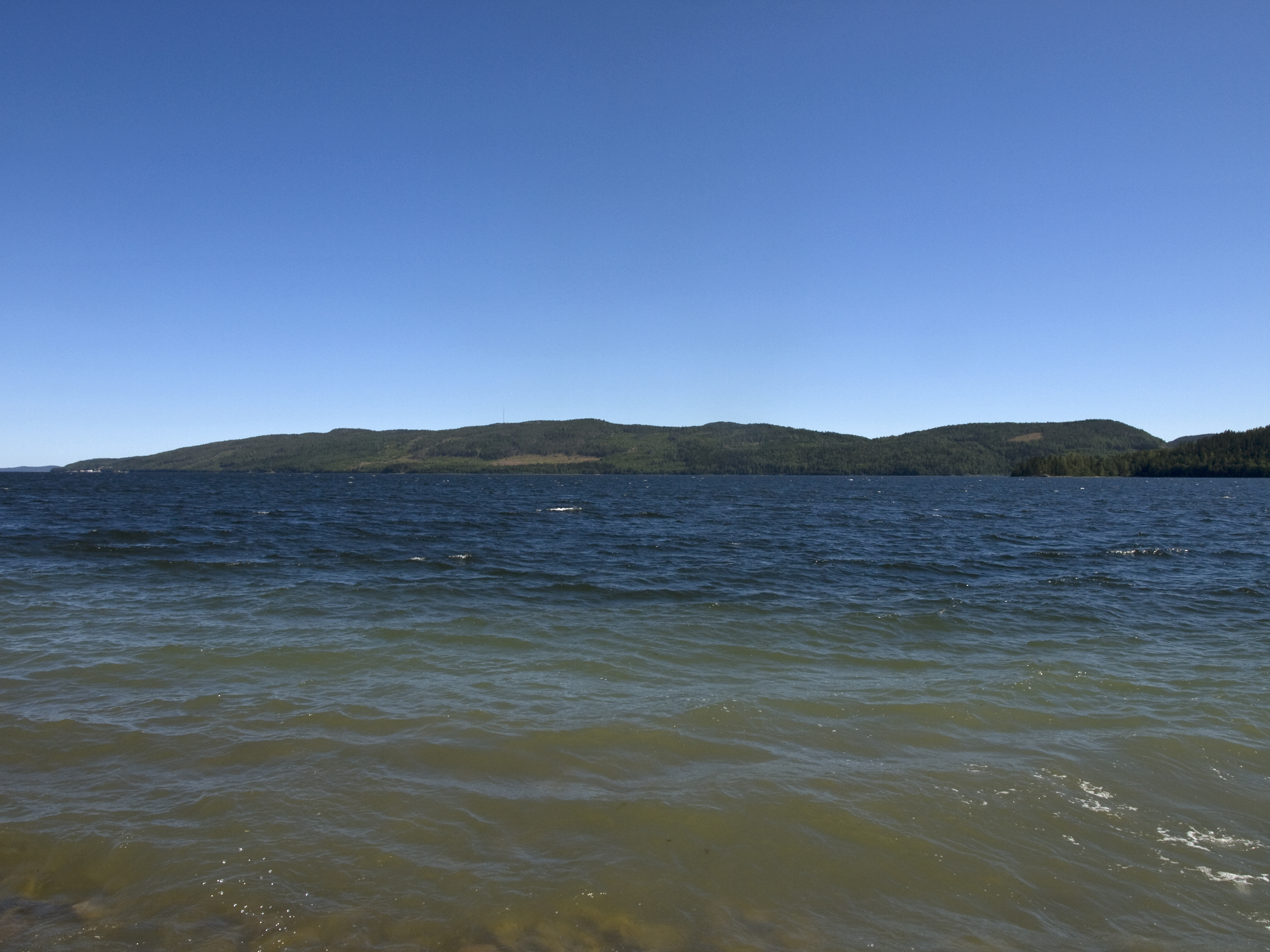 Ullångersfjärden